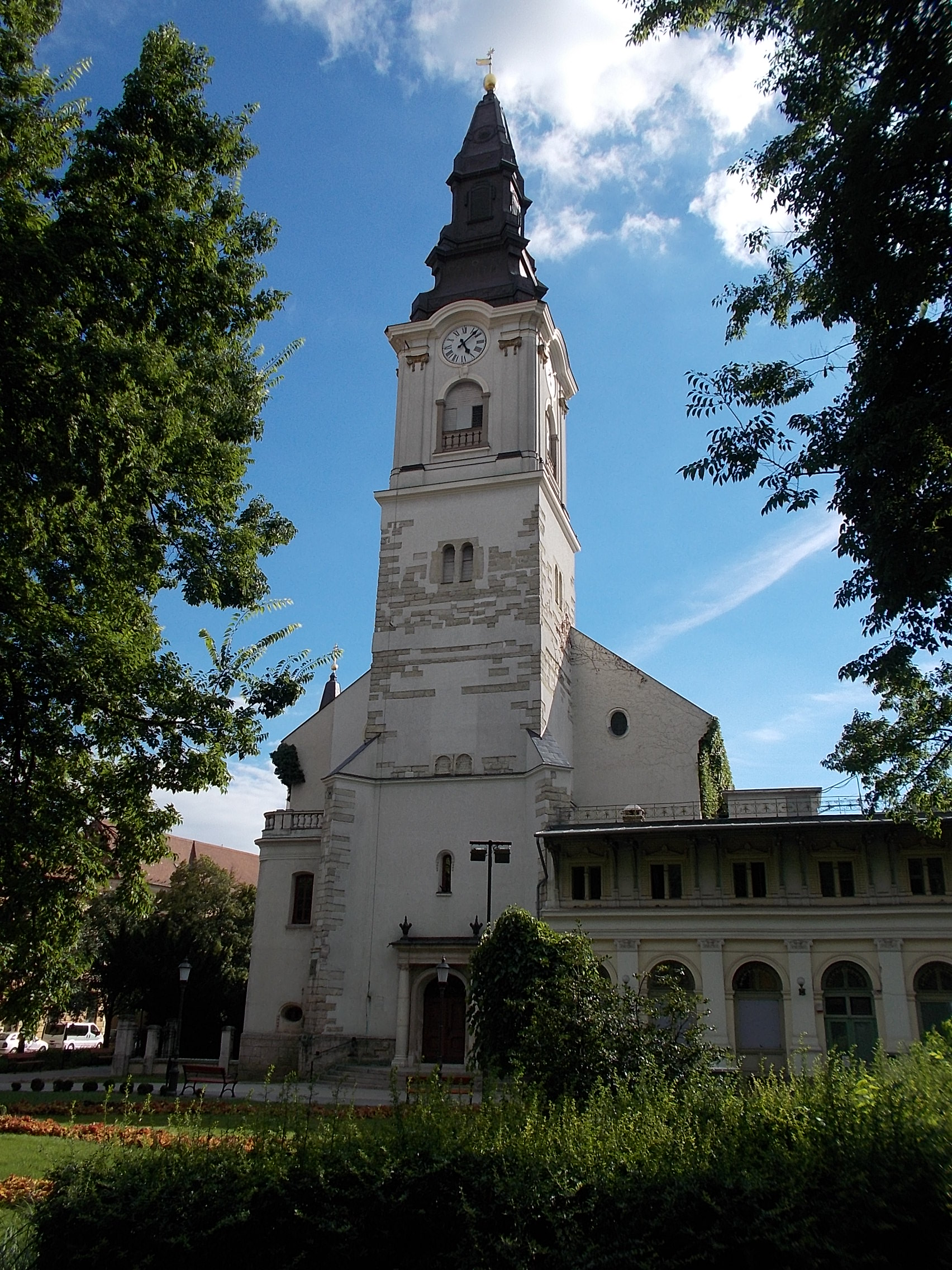 Reformed church. Built in 1684, but extended remodelled, renewed in several times 1728, 1790, 1862 and 1911. - Szabadság Square, Kecskemét, Bács-Kiskun County, Hungary.